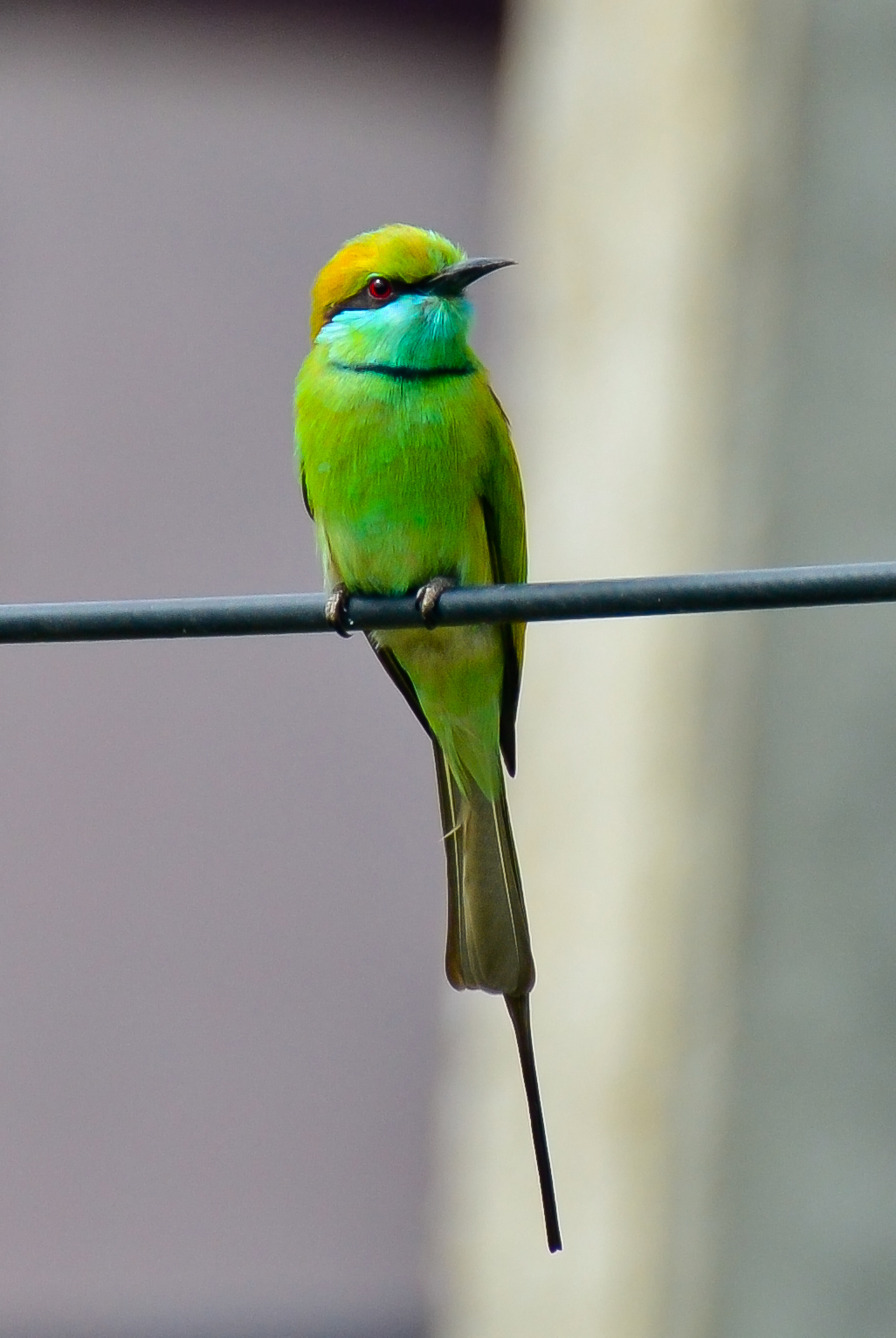 A Green Bee-eater (Merops orientalis) perched on a television cable in Tirunelveli, Tamil Nadu, India